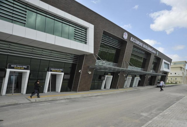 Kastamonu Uzunyazı Airport Terminal Building - Entrance